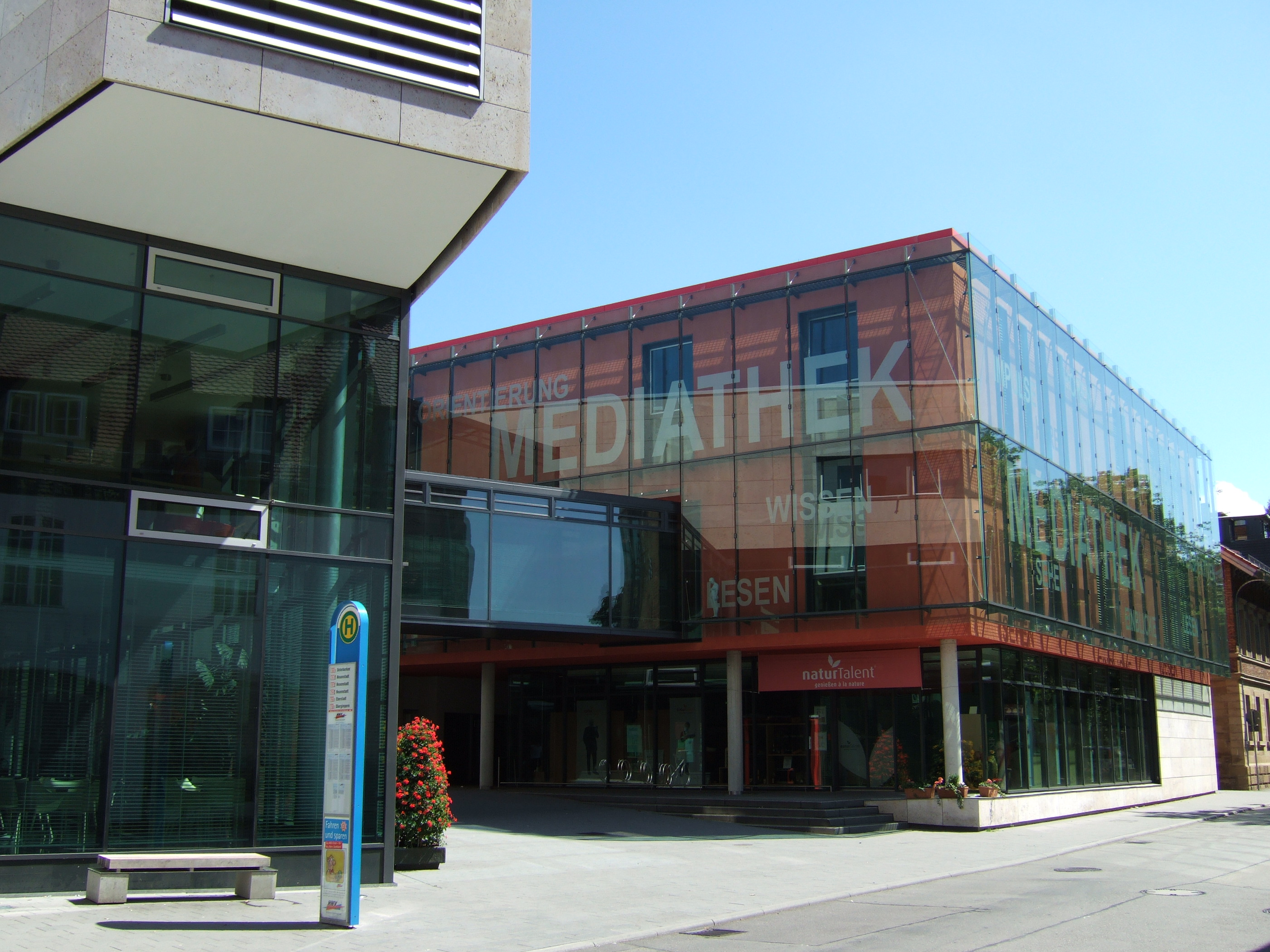 City Library "Mediathek" of the City Neckarsulm